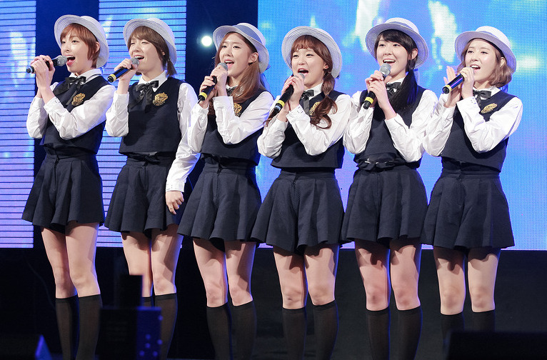 F-ve Dolls. Left to right: Hye-won, Hyo-young, Seung-hee, Eun-kyo, Yeon-kyung, Na-yeon.